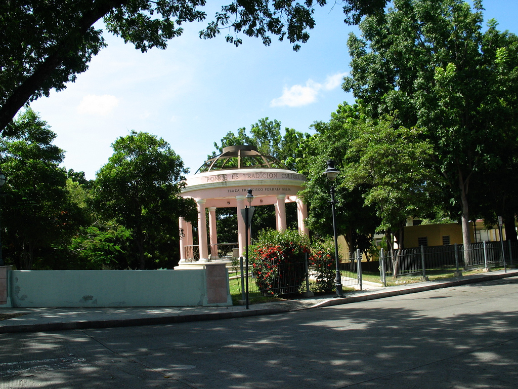 Plaza Francisco Porrata-Doria, looking southeast, located at Tricentennial Park, in Barrio Tercero, Ponce, Puerto Rico.